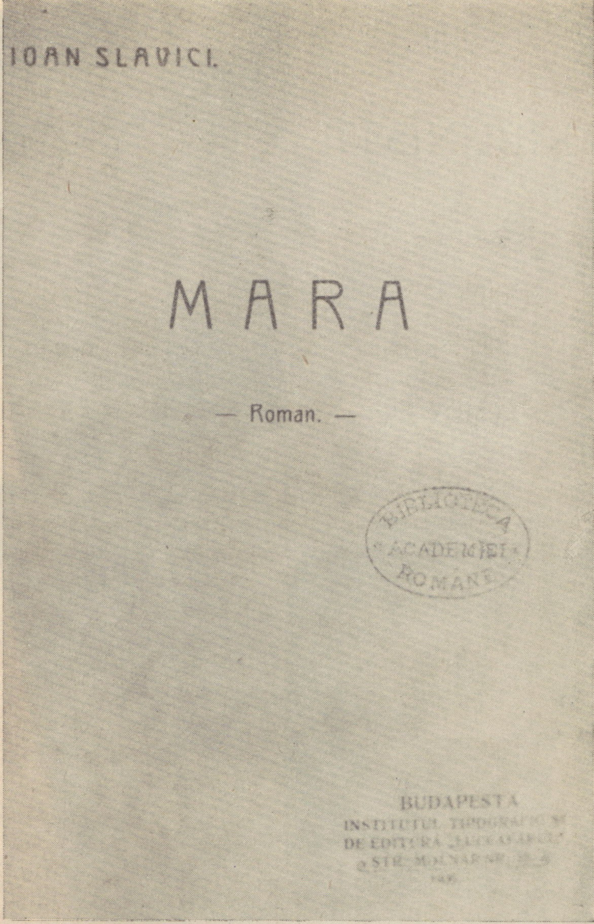 First page of the novel ”Mara”, published in 1906